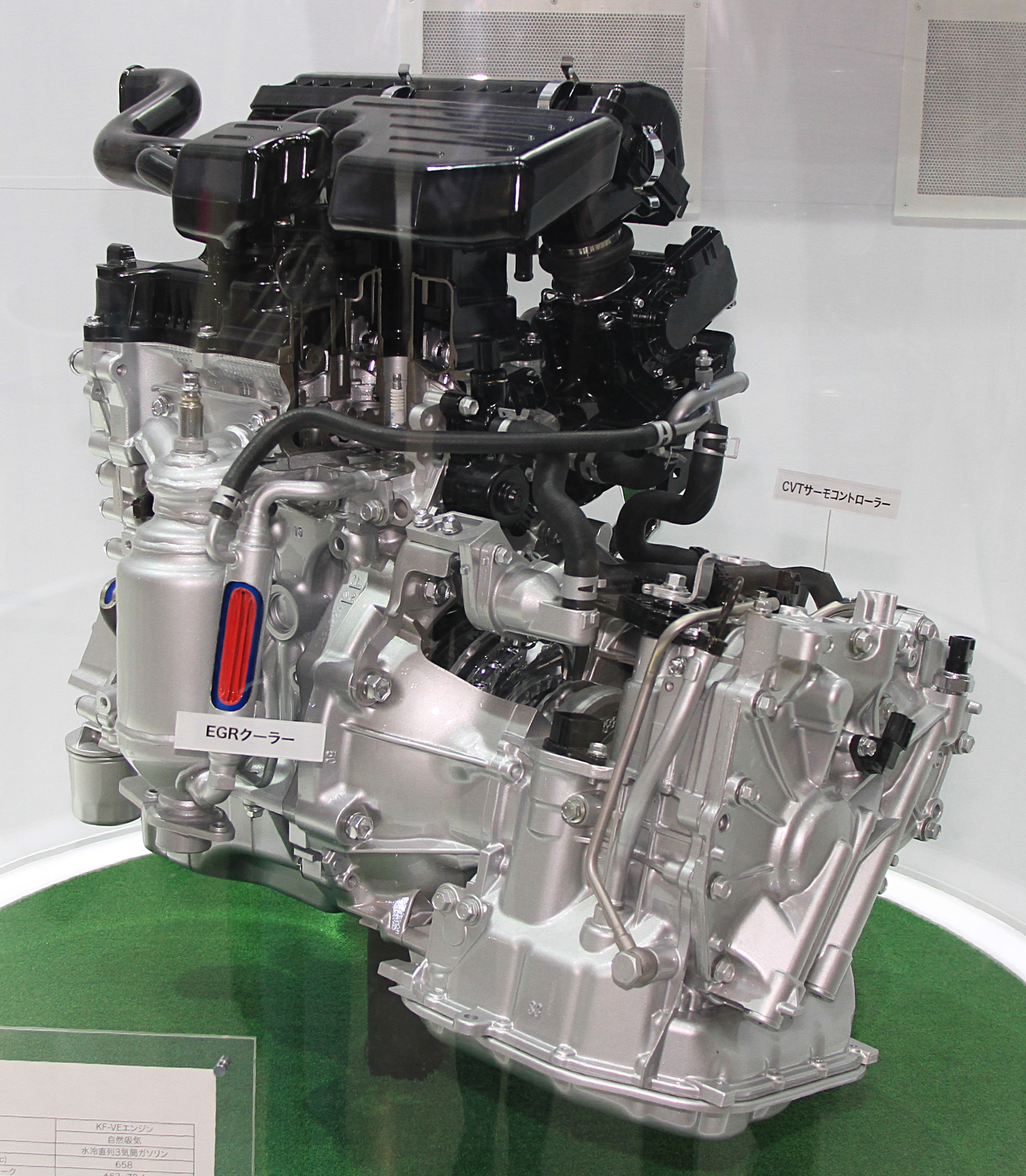 Daihatsu KF-VE (60Nm/5,200rpm, 38kW/6,800rpm)